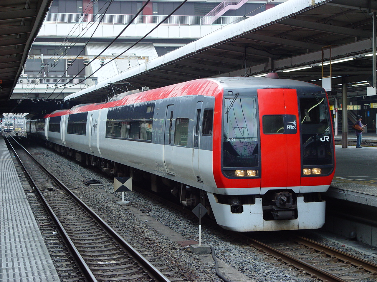 JR East 253 series 6-car EMU set Ne-01 at Omiya Station on the Narita Express 25 service to Narita Airport